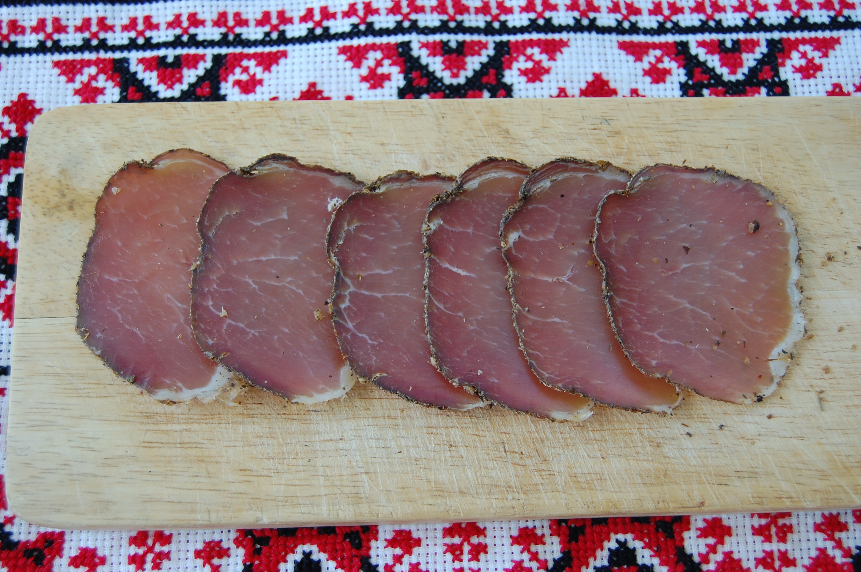 Polendvitsa